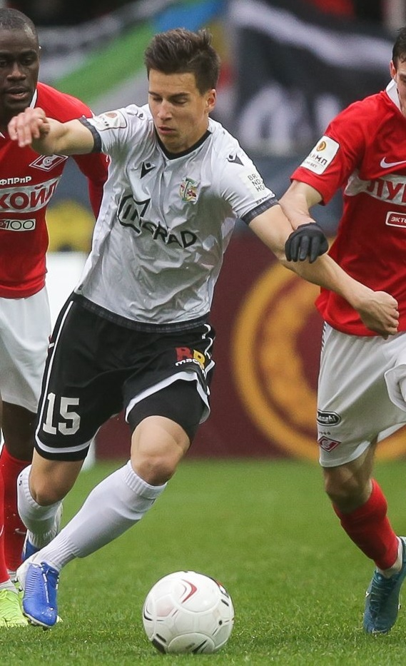 Aleksandr Orekhov with FC Torpedo Moscow in a game against FC Spartak-2 Moscow.